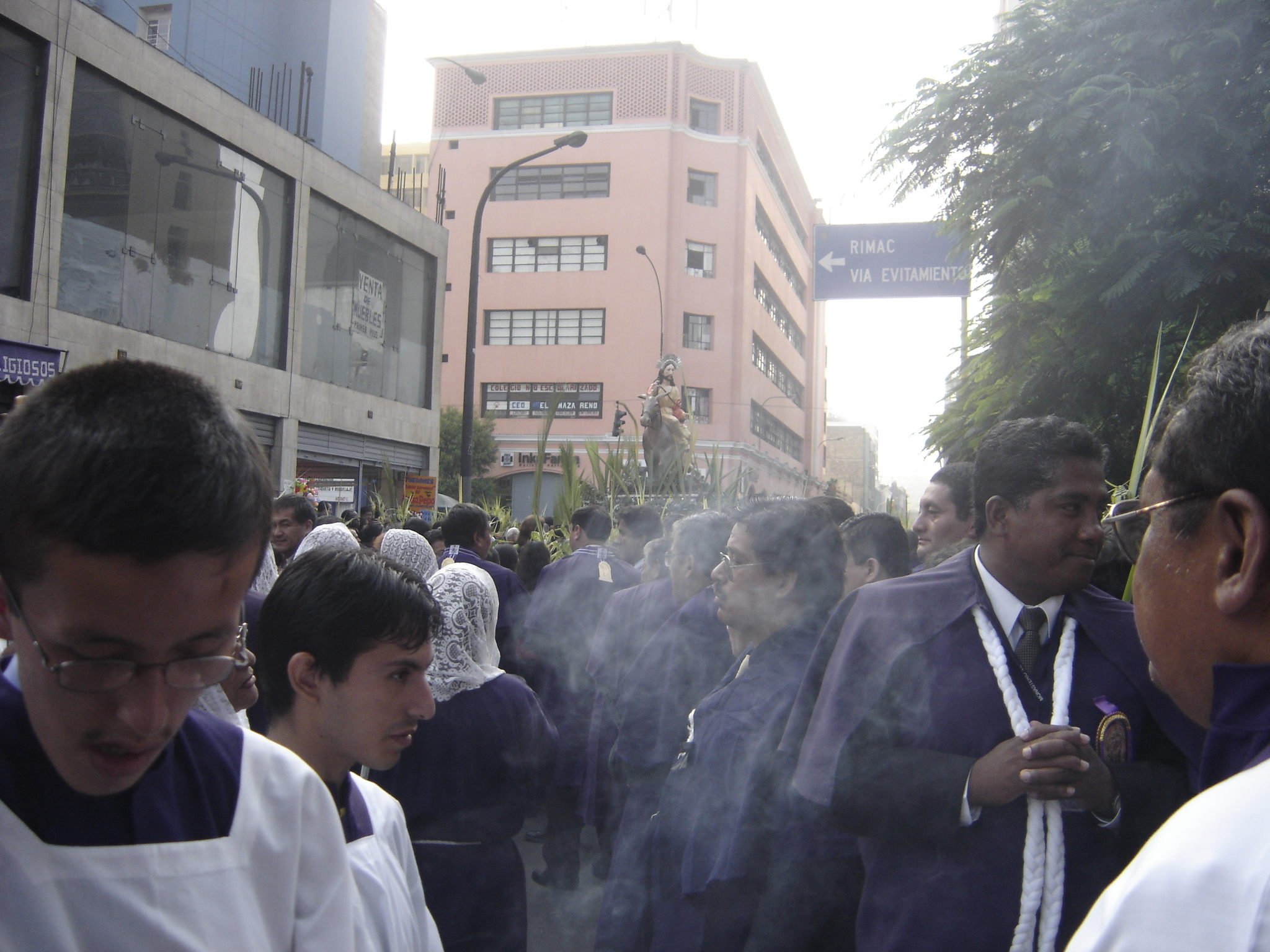 Palm Sunday - Las Nazarenas Sanctuary, Lima-Peru.